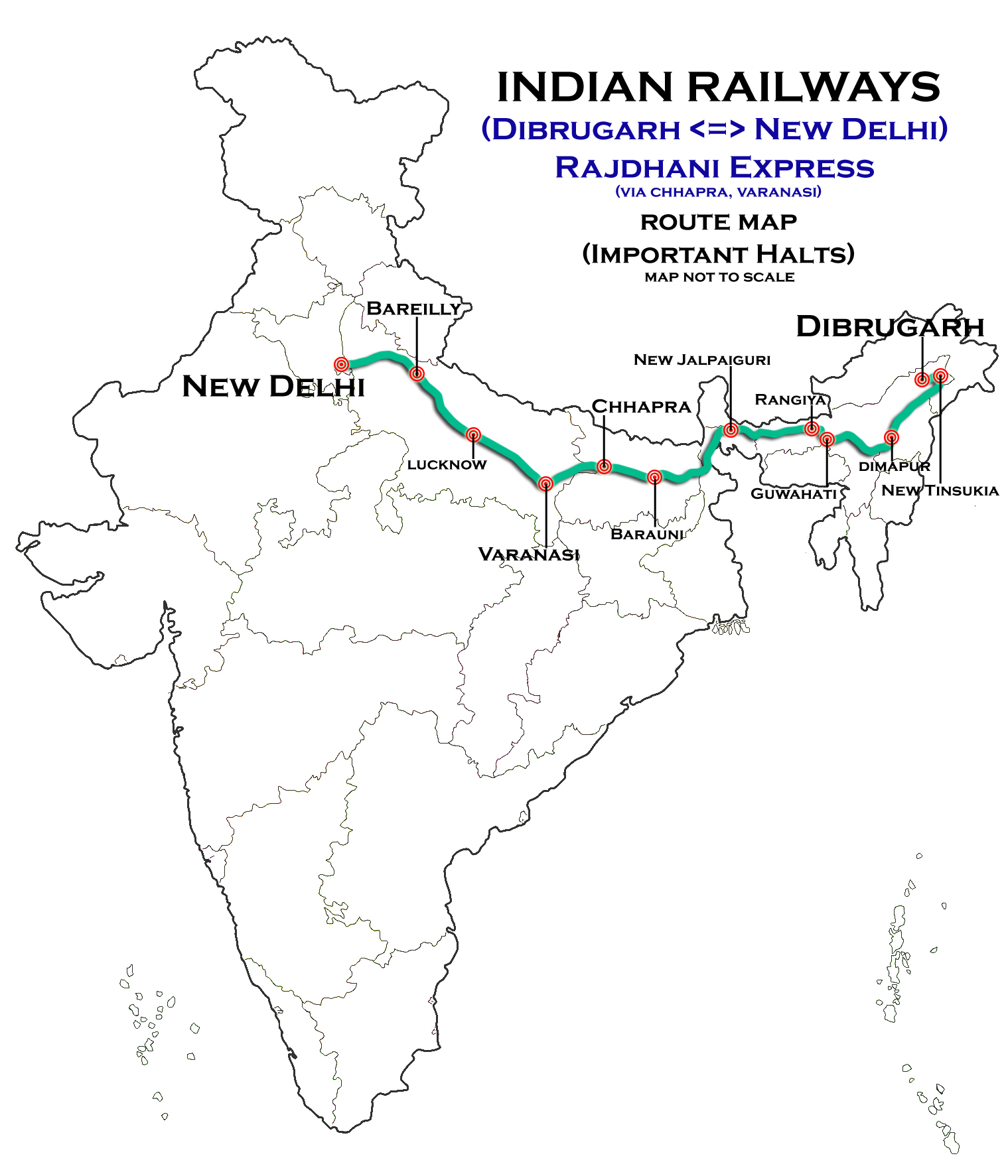 (New Delhi - Dibrugarh) Rajdhani Express (via Varanasi) Route map